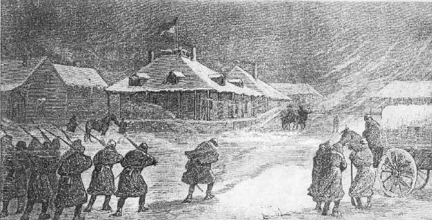 Sketch of General Crook's arrival at Fort Fetterman in Wyoming Territory following his unsuccessful 1876 Bighorn Expedition. Etching from Frank Leslie's Magazine.